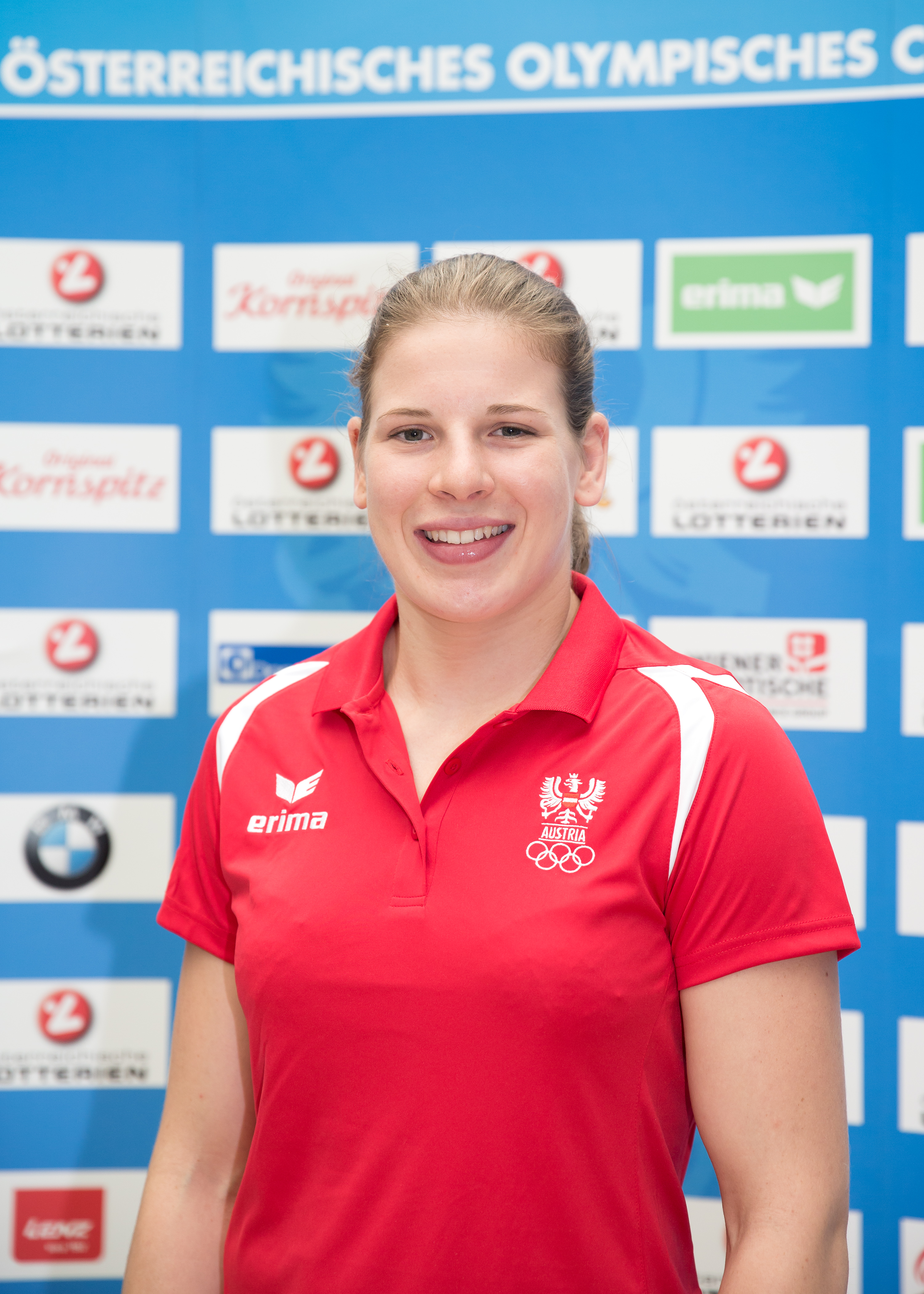 Bernadette Graf at the hand-out of the Austrian teams official attire for the 2016 Summer Olympics (Marriott, Vienna).